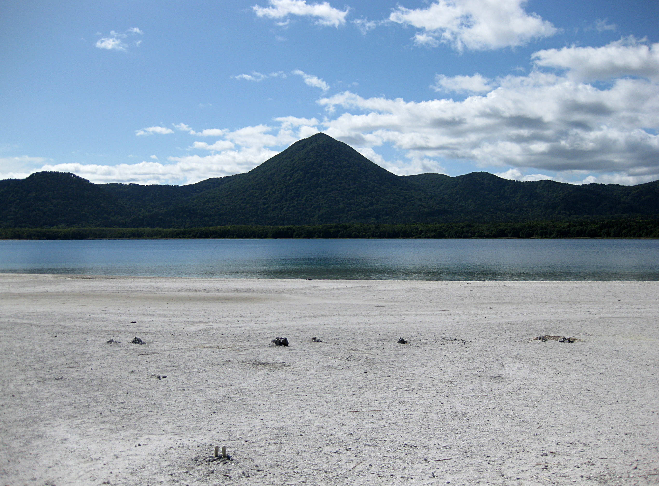 Mount Osore's Lake Usori and Mount Ozukushi in Shimokita, Aomori.